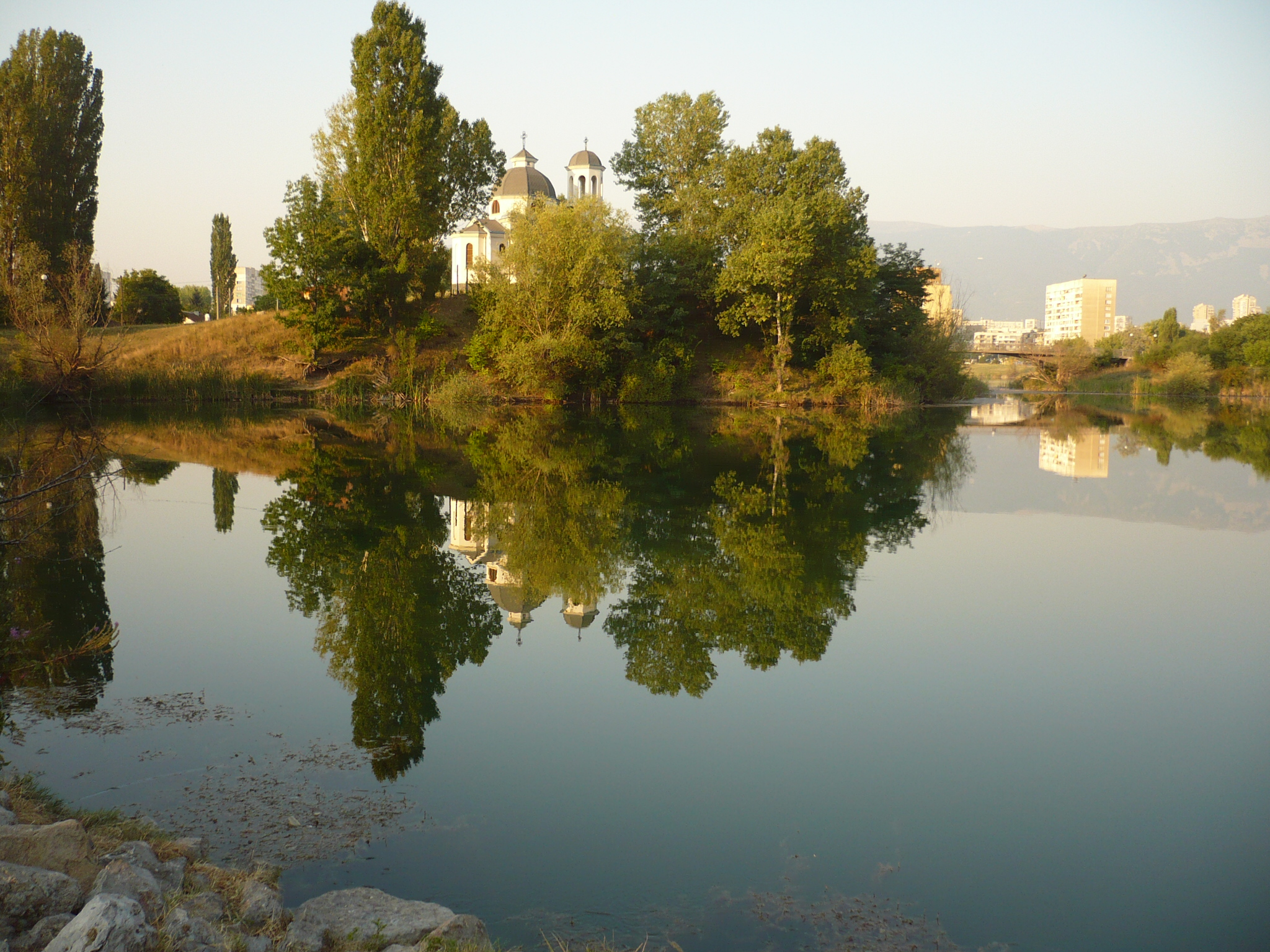 Sofia, the lake in the "Druzhba" neighbourhood.